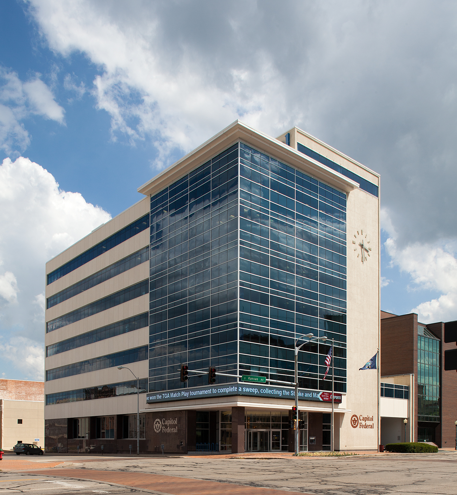 Throughout its over 120-year history, Capitol Federal has been headquartered in Topeka, KS.